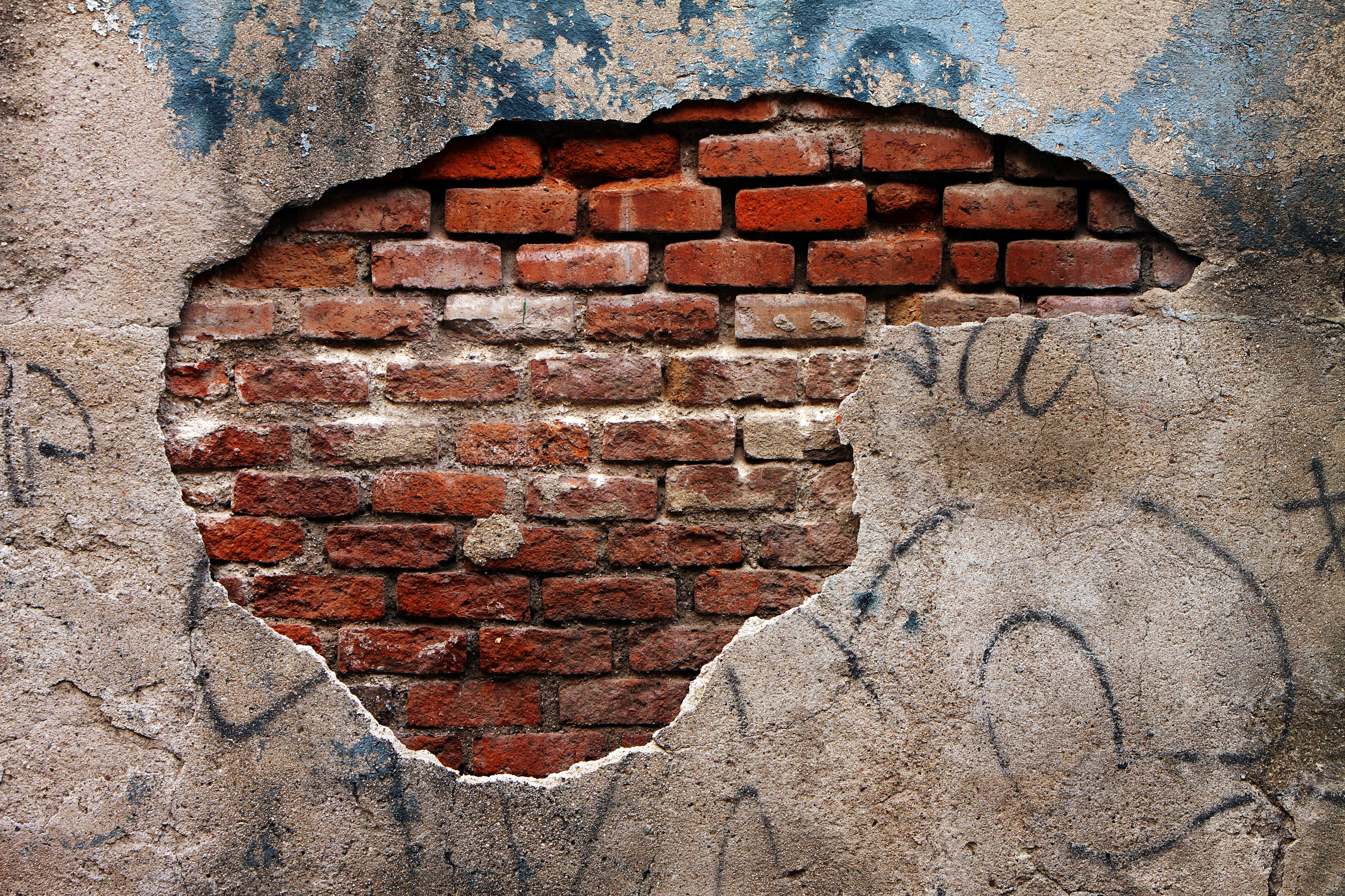 An example of texture and color.